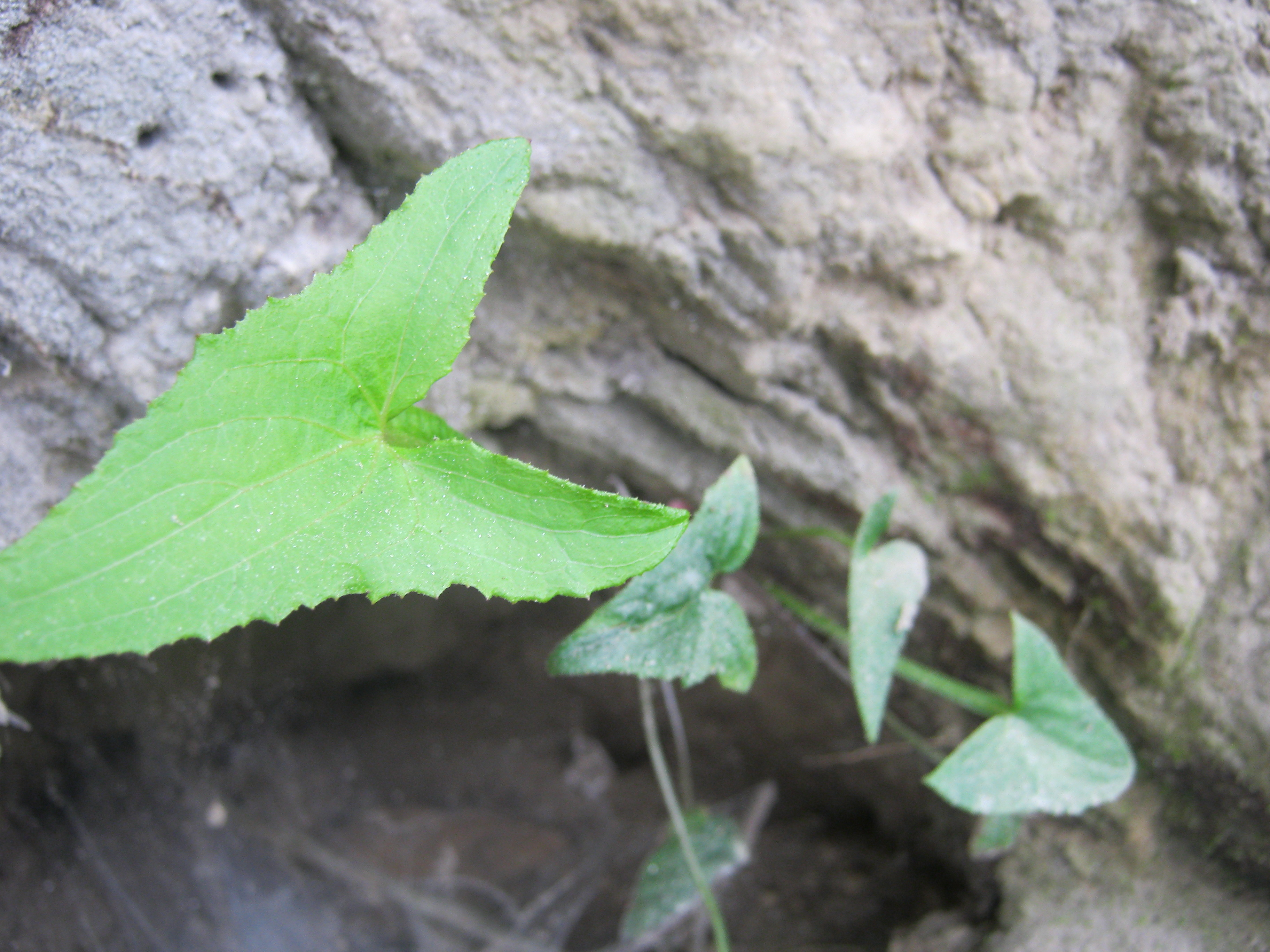 Also known as Mushakkarni (Sanskrit) or Sartapre. A medicinal herb found in Panchkhal VDC, Nepal.